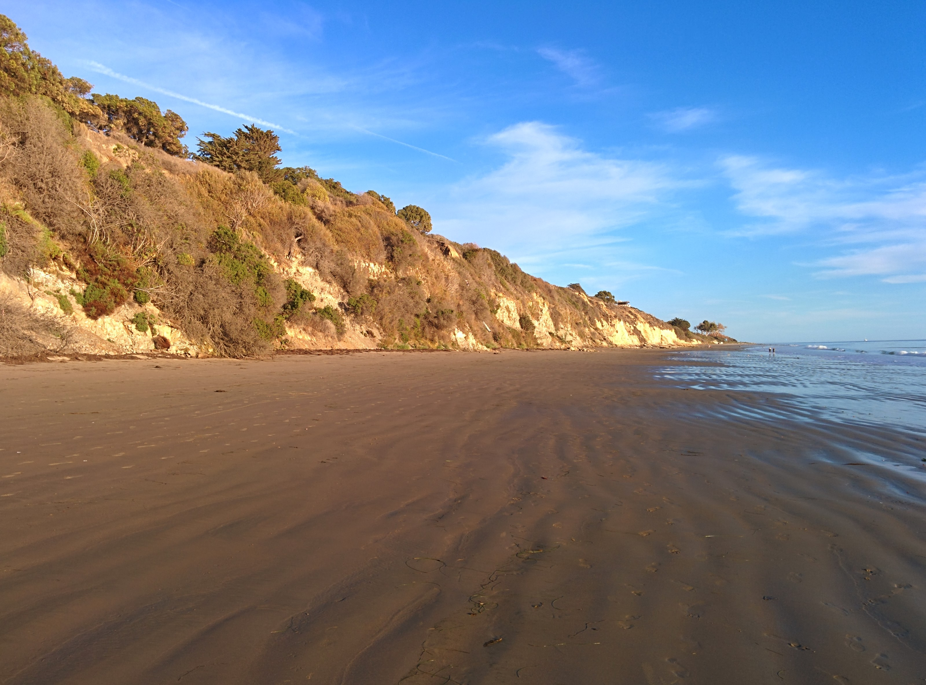 View looking east from the beach